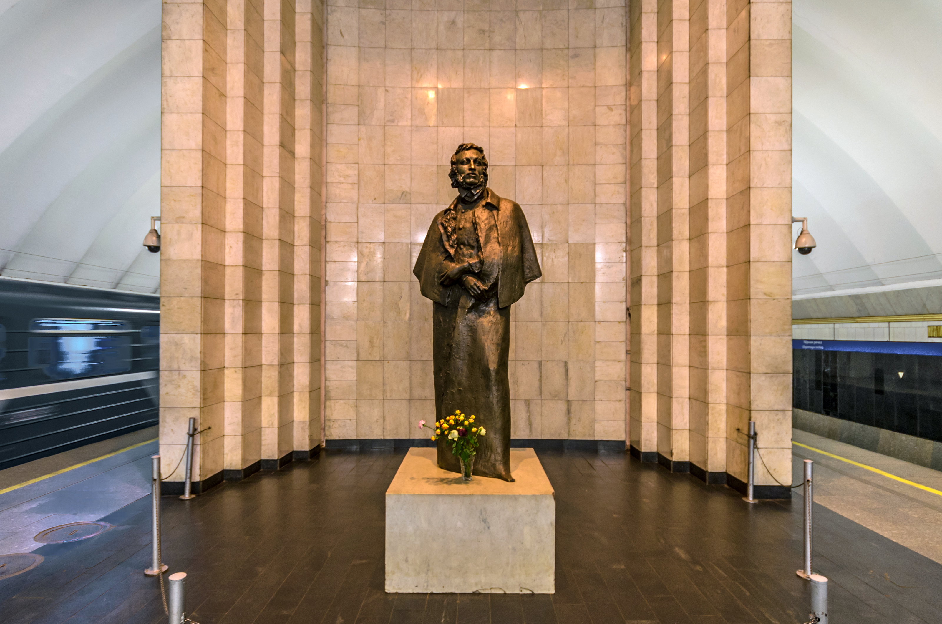 Chyornaya rechka station of Saint Petersburg Subway. Pushkin's monument